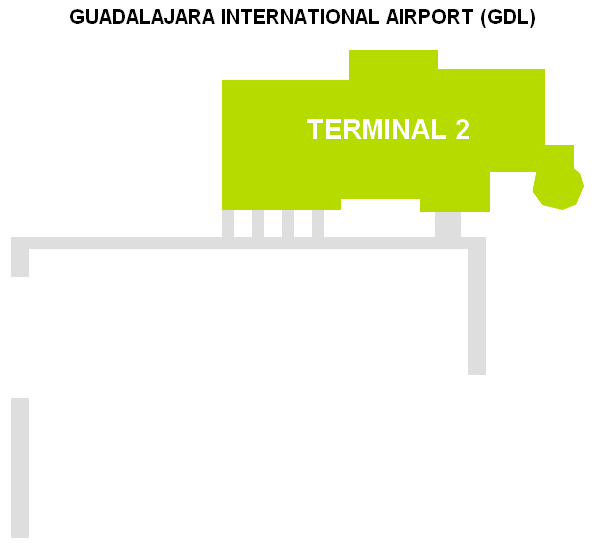 Guadalajara International Airport terminal 2.